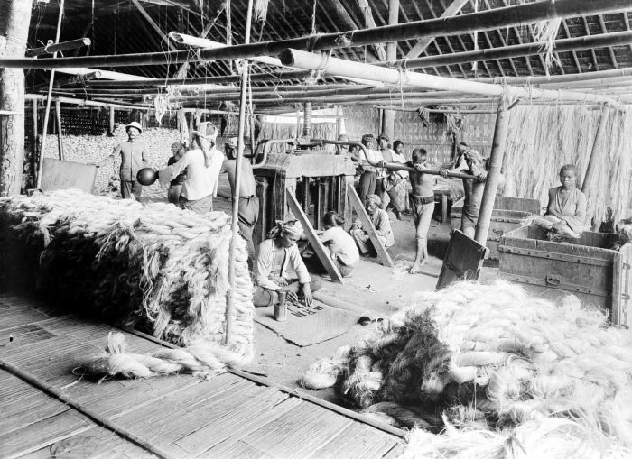 Negative. The packaging of Manila hemp (Musa textilis) into bales at Kali Telepak, Besoeki, East Java.